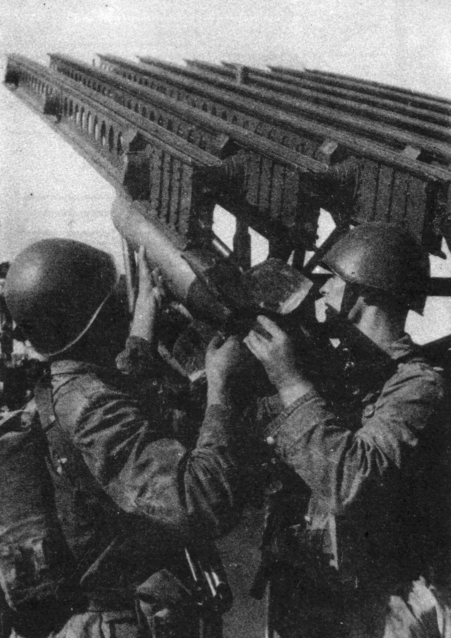 Red Army soldiers loading rockets onto a BM-13.